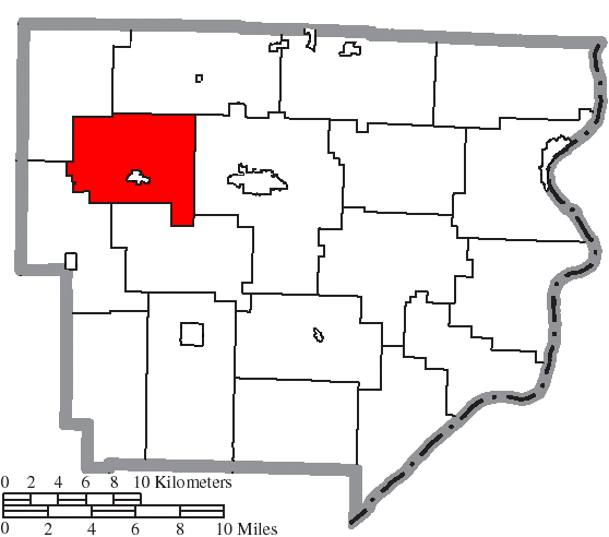 Map of the municipal and township boundaries of Monroe County, Ohio, United States, as of the 2000 census, with the location of Summit Township highlighted. Township borders are shown only in unincorporated areas in order to differentiate incorporated and unincorporated areas more clearly.